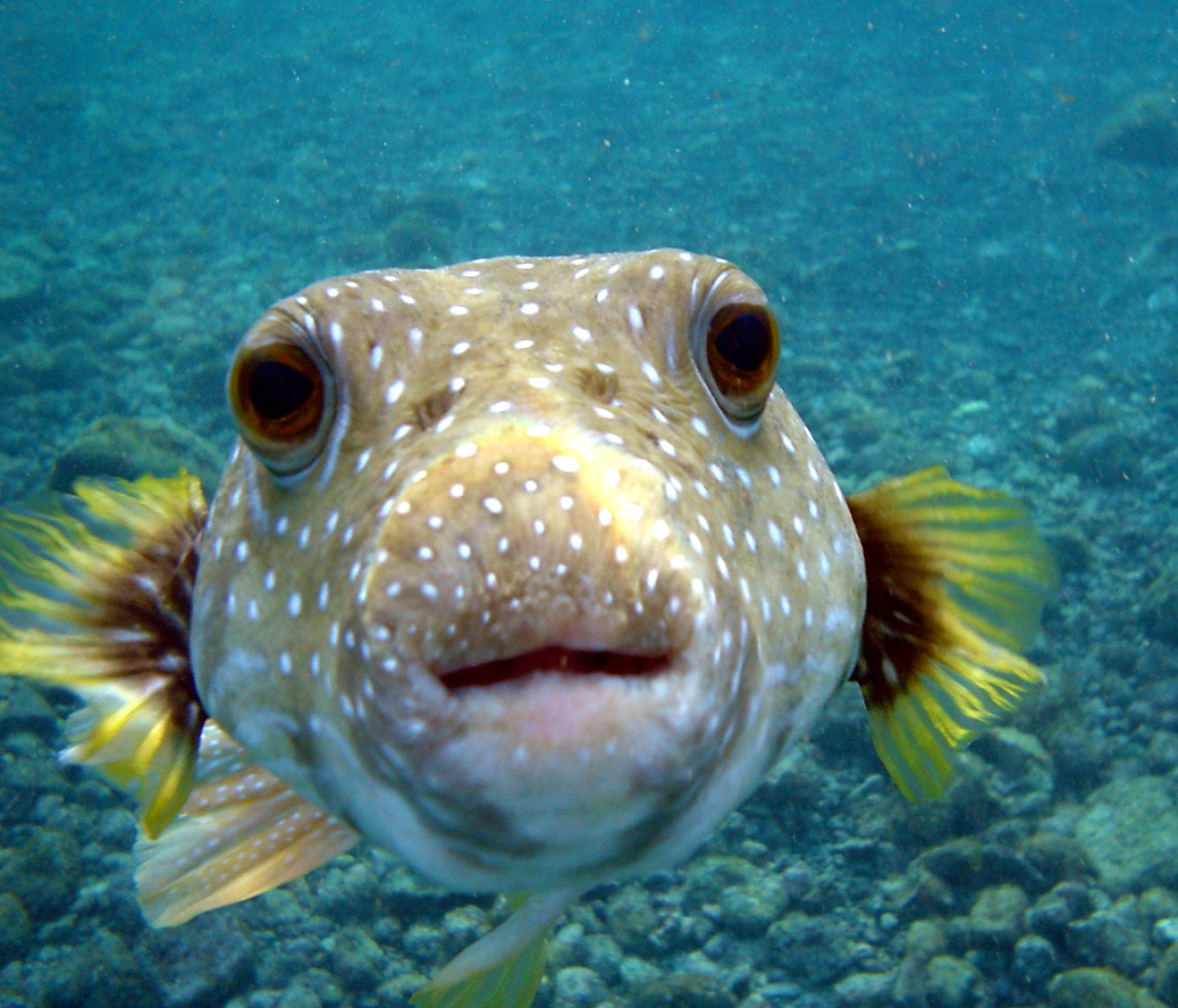 A pufferfish, Arothron hispidus, is kissing my camera at Big Island of Hawaii